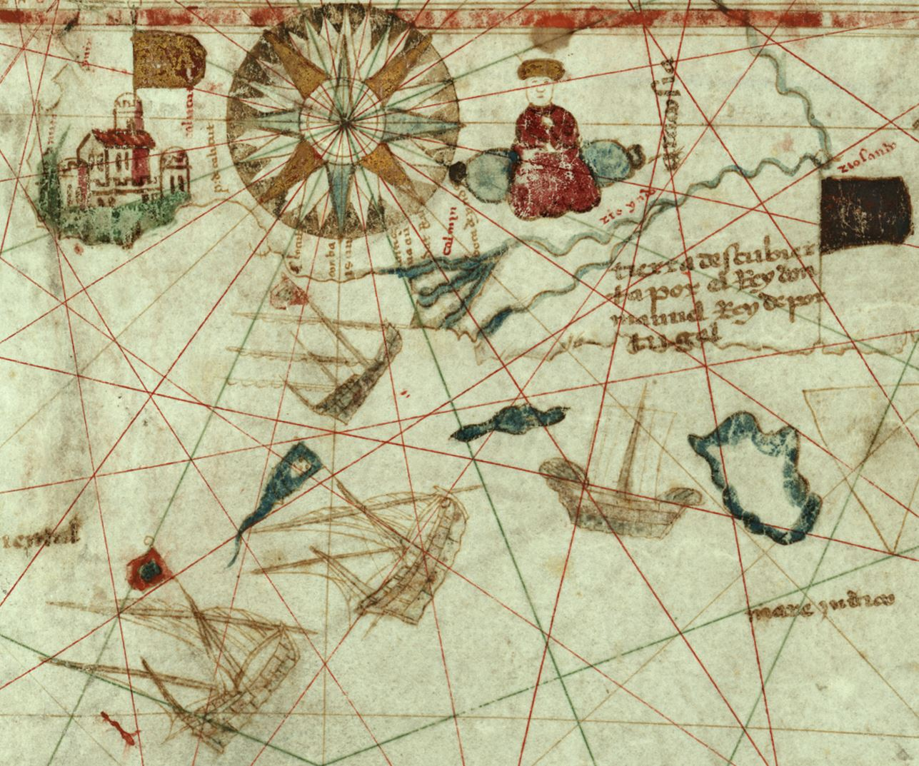 Map of Juan de la Cosa, 1500. Detail: Portuguese ships arriving in India.